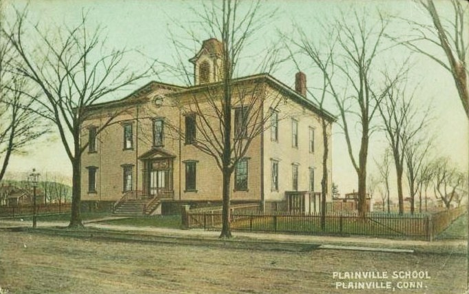 Postcard picture of Plainville School in Plainville, Connecticut; postcard mailed in 1909. Other side of postcard states: "Publ. by the August Schmetzer Co., Meriden, Conn. No. 5, Made in Germany"